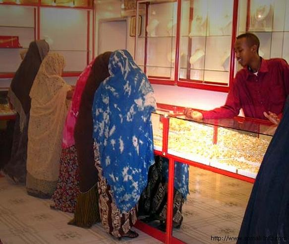 Gold shop in the capital of Somaliland, Hargeisa